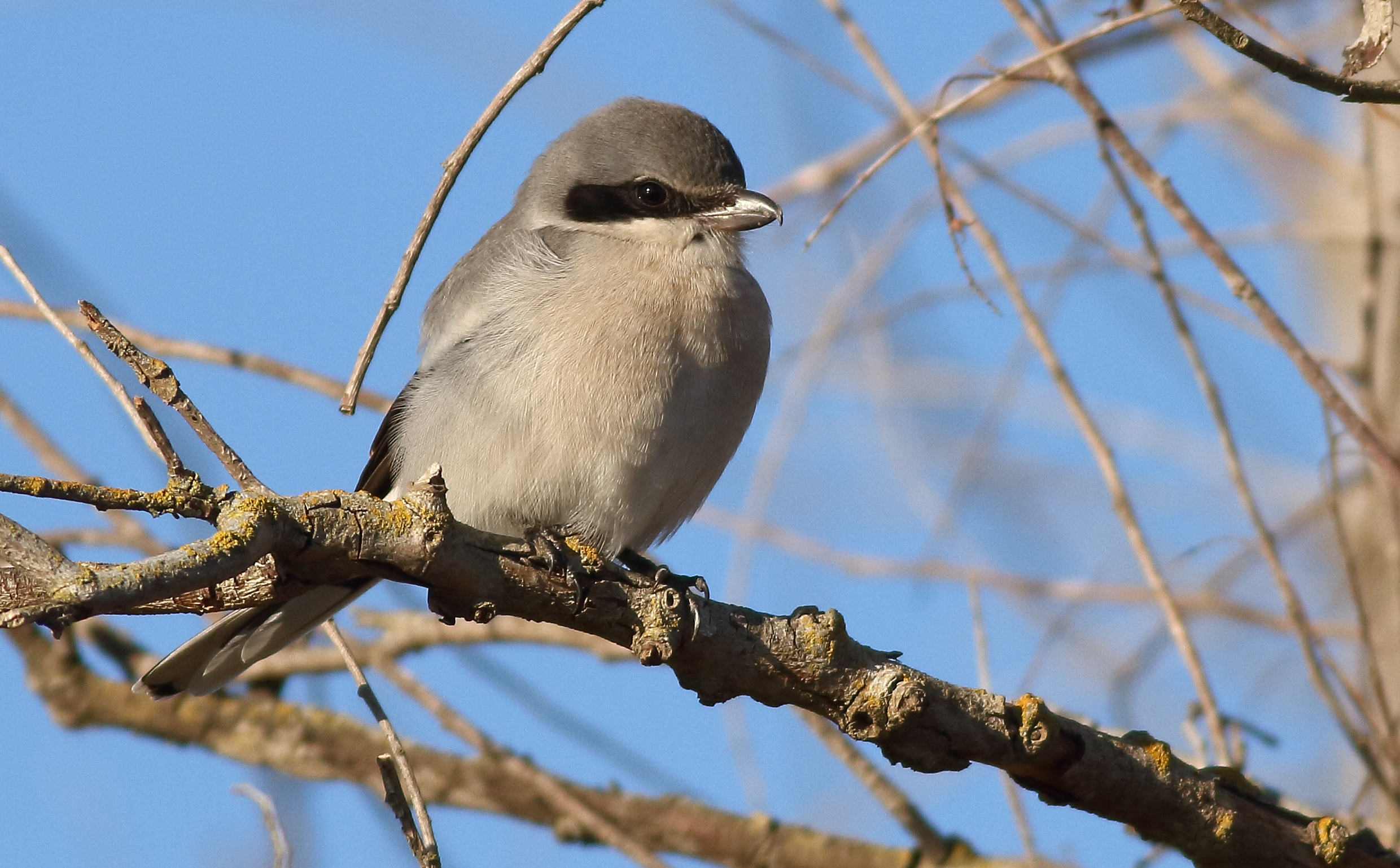 Loggerhead Shrike in Davis, California